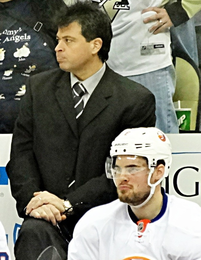 New York Islanders head coach Jack Capuano behind the bench during a playoff game against the Pittsburgh Penguins, May 9, 2013, at Consol Energy Center in Pittsburgh, PA.